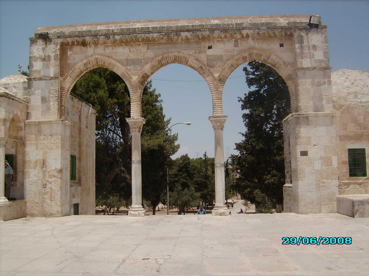 Al-Aqsa Mosque